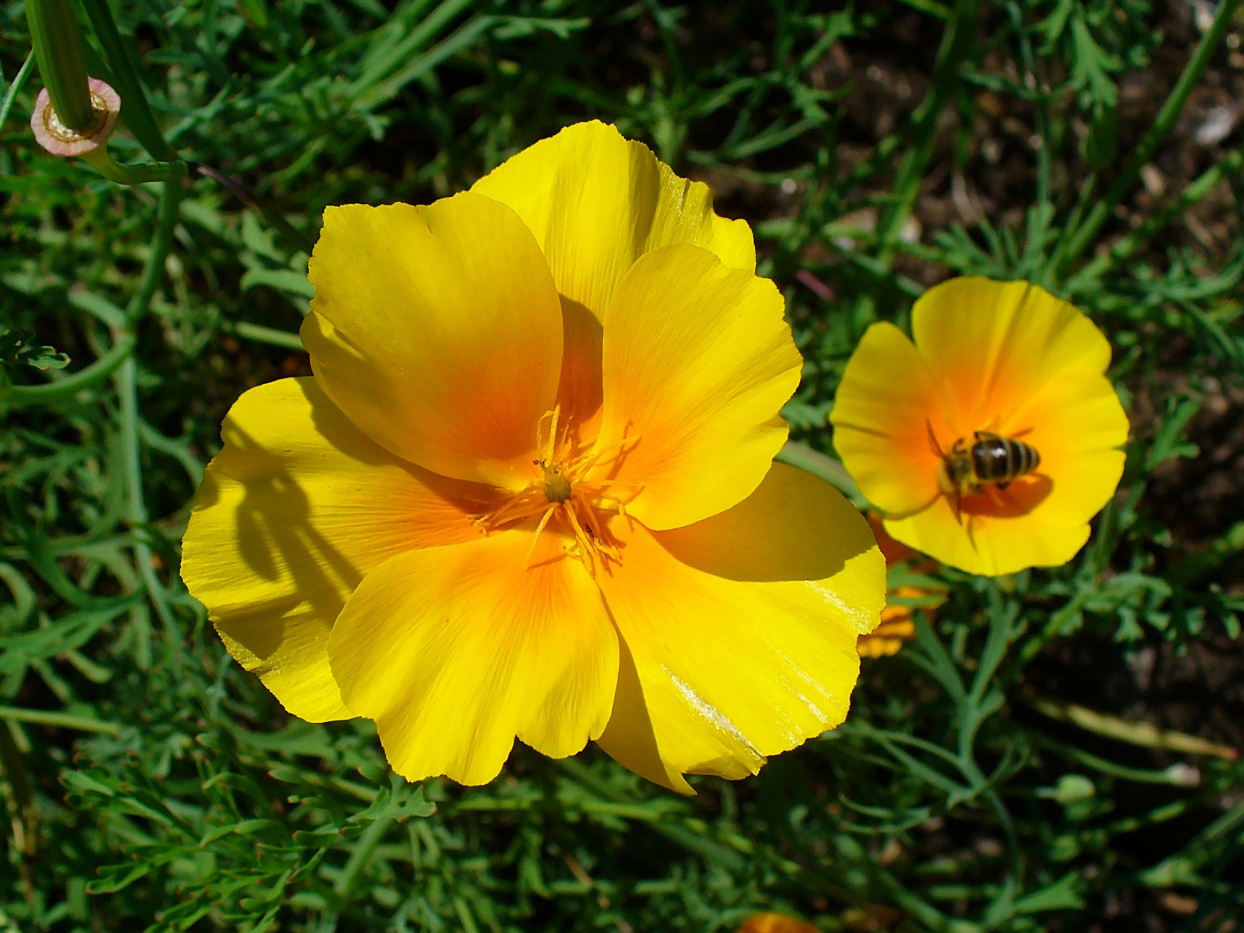 Eschscholzia californica, Papaveraceae, California poppy, aberrant flower with six petals; Botanical Garden KIT, Karlsruhe, Germany. The blooming plant is used in homeopathy as remedy: Eschscholzia californica (Esch.)